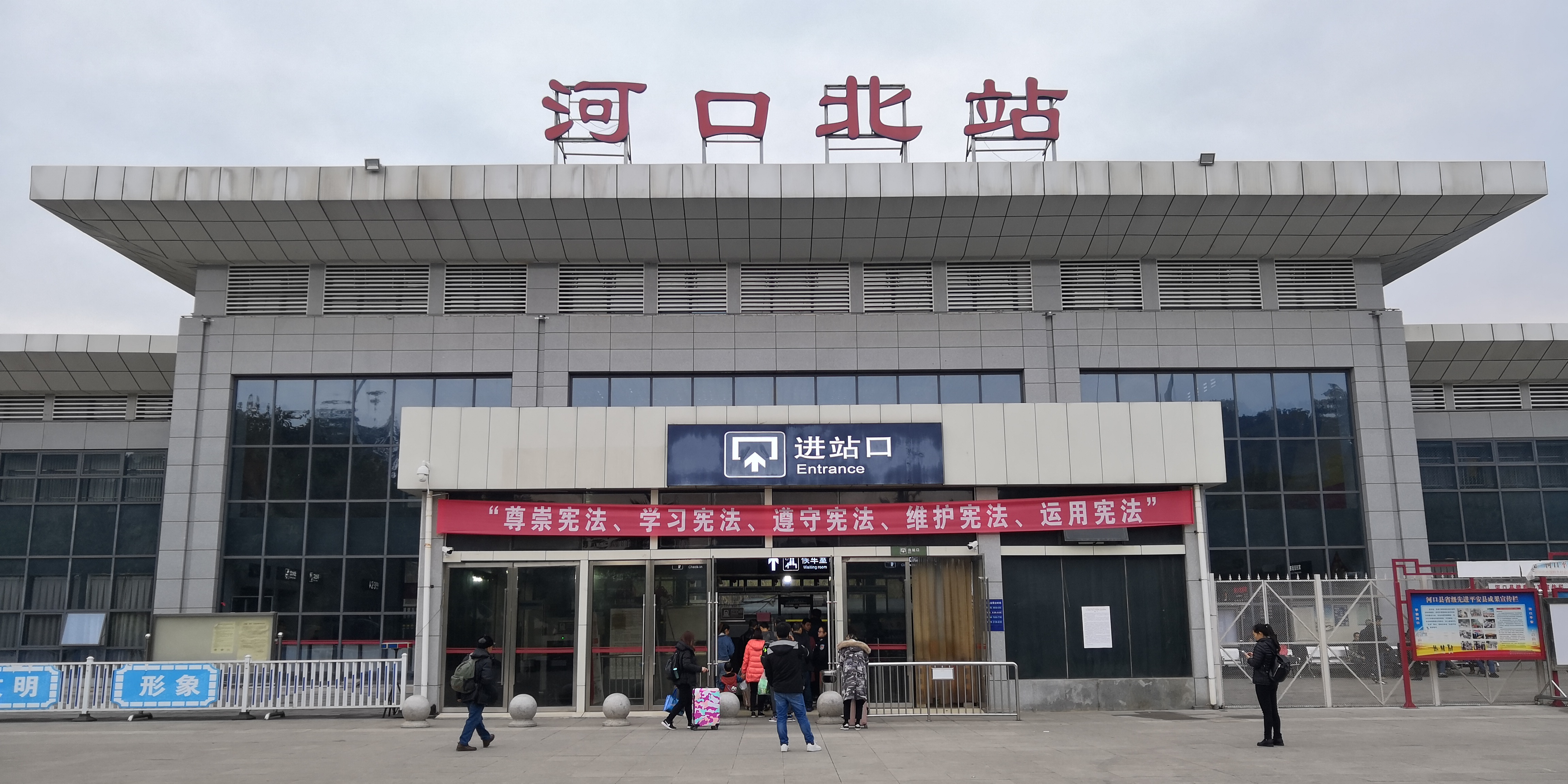 Hekoubei Railway Station (Jan 4, 2019)